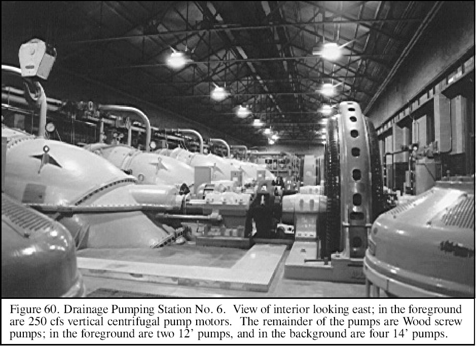 Drainage pumping station no. 6 in New Orleans from report prepared by US Army Corps of Engineers